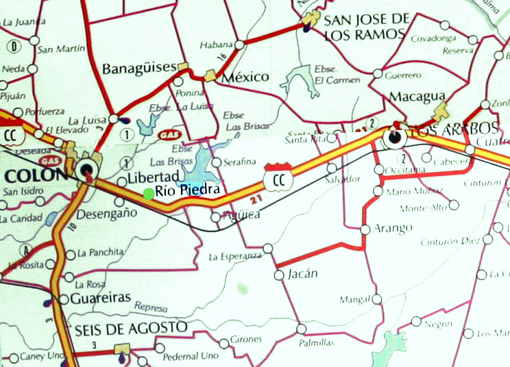 Located of Rio Piedra in Matanzas, Cuba